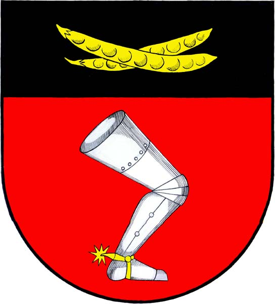 Coat of amrs of Hracholusky , District Rakovník, Czech Republic